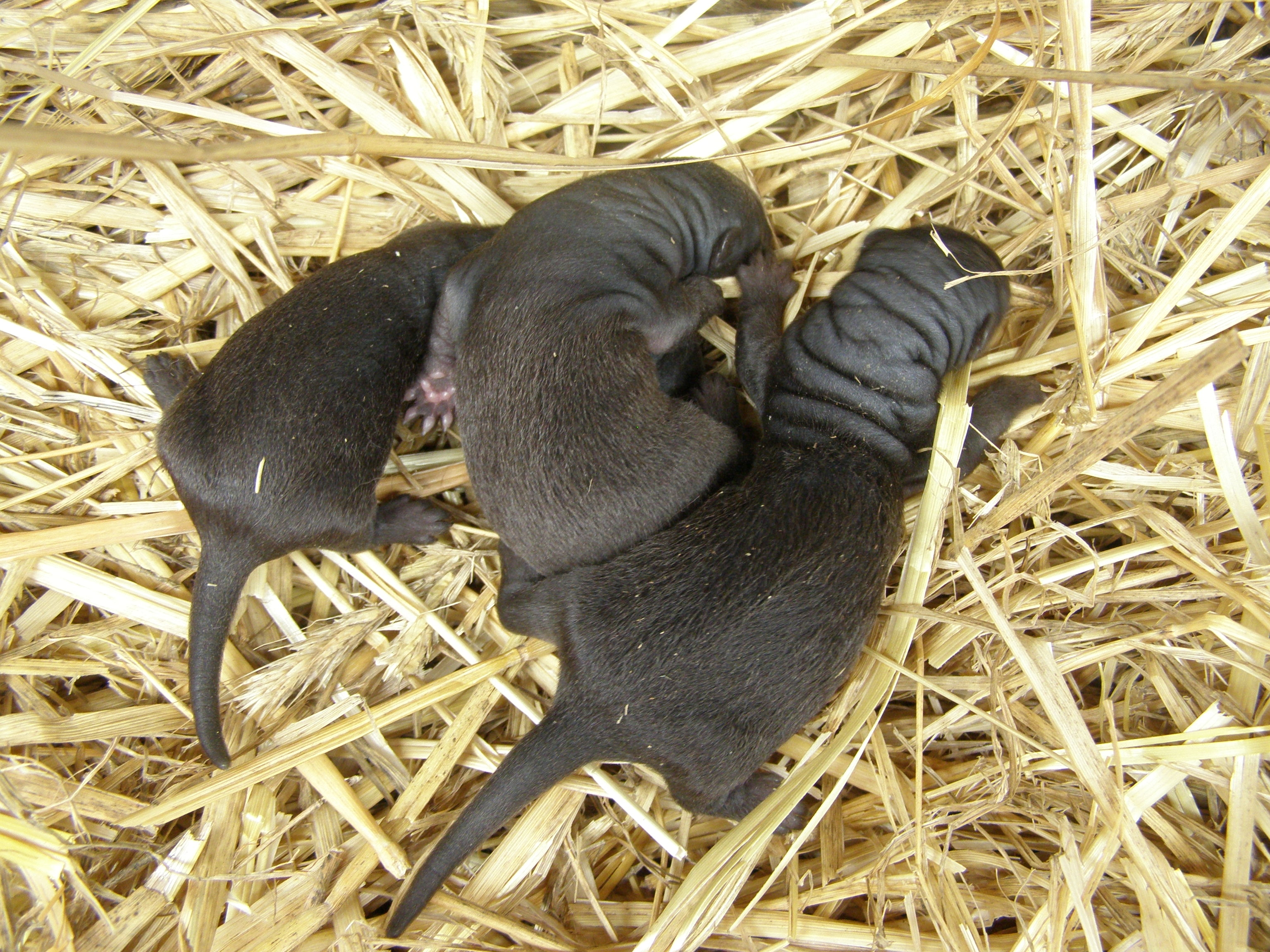 Young American Mink (Neovison vison), Poland.